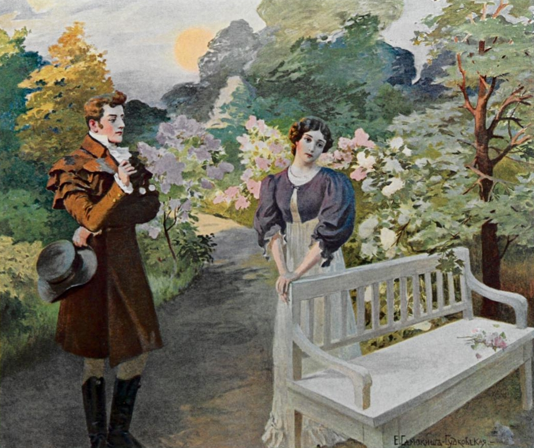 Illustration from "Eugene Onegin" edition (1908) by Samokish-Sudakovskaya